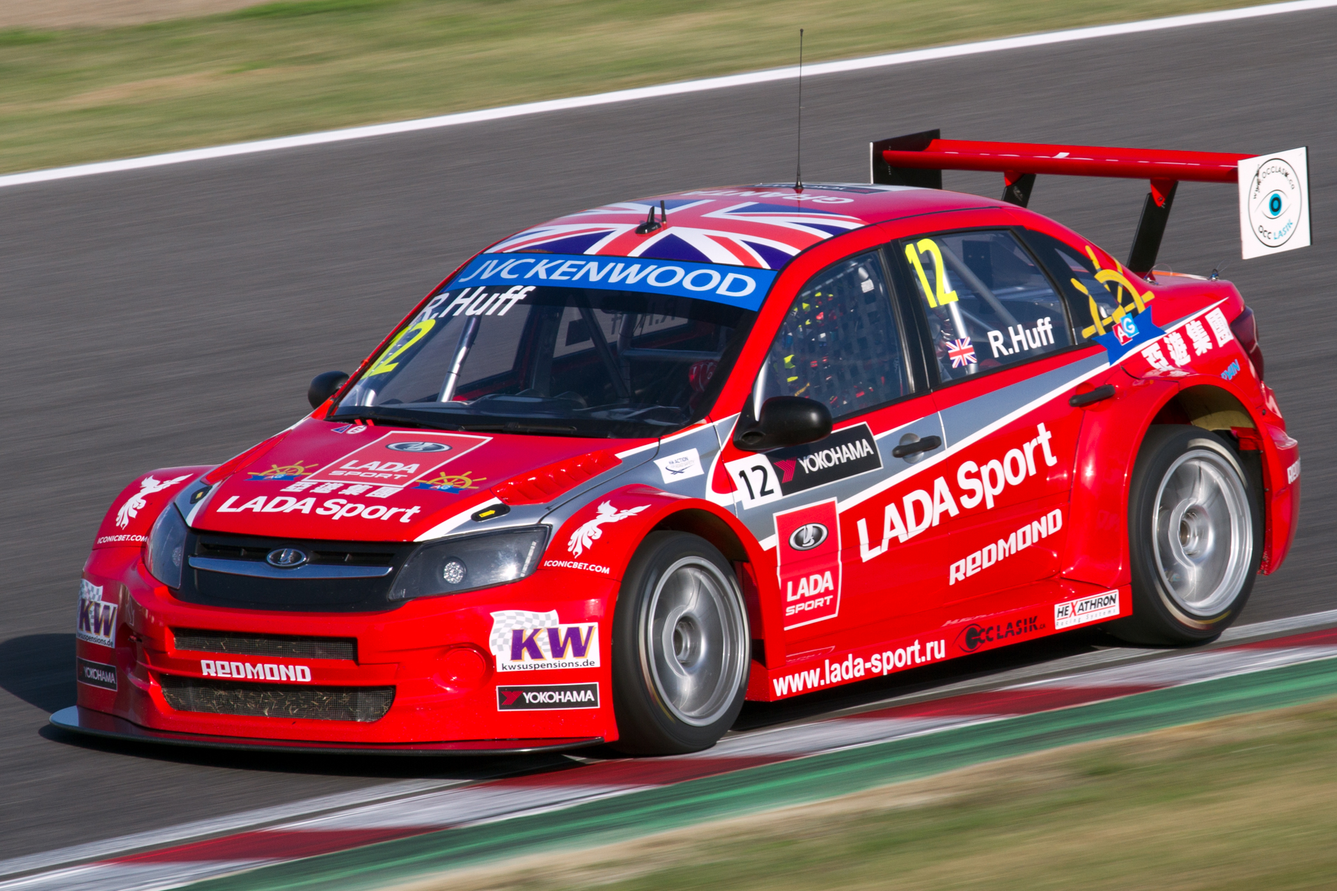 World Touring Car Championship 2014 Race of Japan: Robert Huff (Lada Sport)